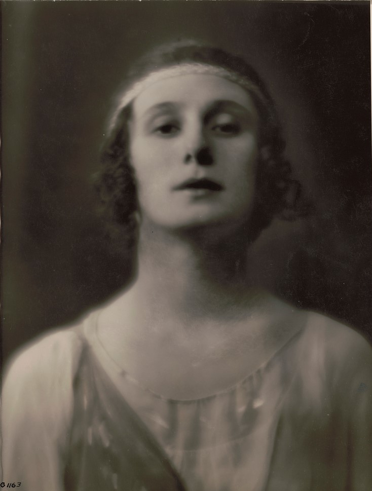 Photograph shows head-and-shoulders portrait of Russian ballet dancer Anna Pavlova.